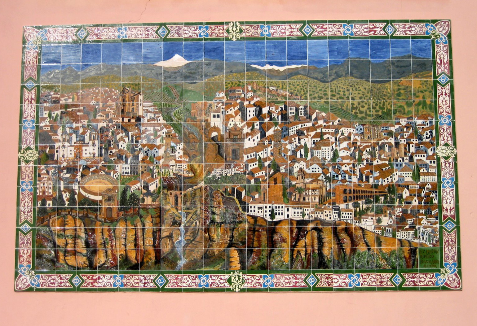 Tiles - Ronda, Spain